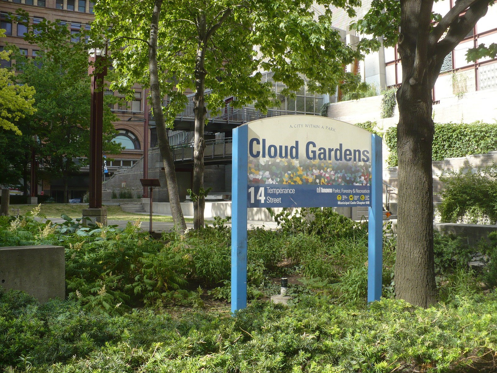 Cloud Gardens in Toronto